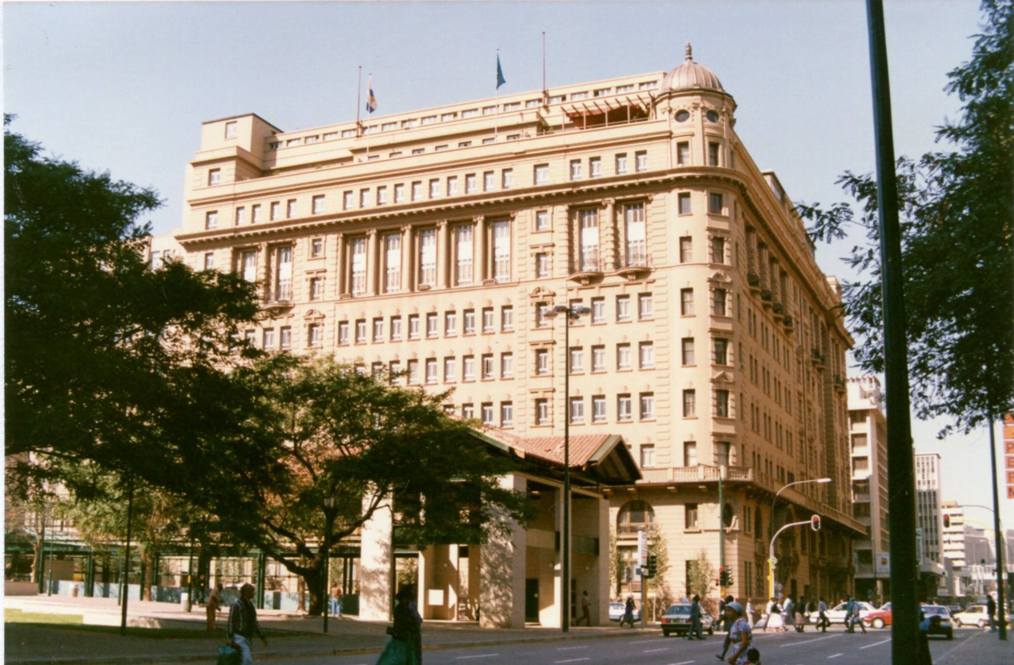 This is the National Bank Building in Simmonds street Johannesburg. These are works from the Johannesburg Heritage Foundation donated to be used in Wikimedia and its other projects